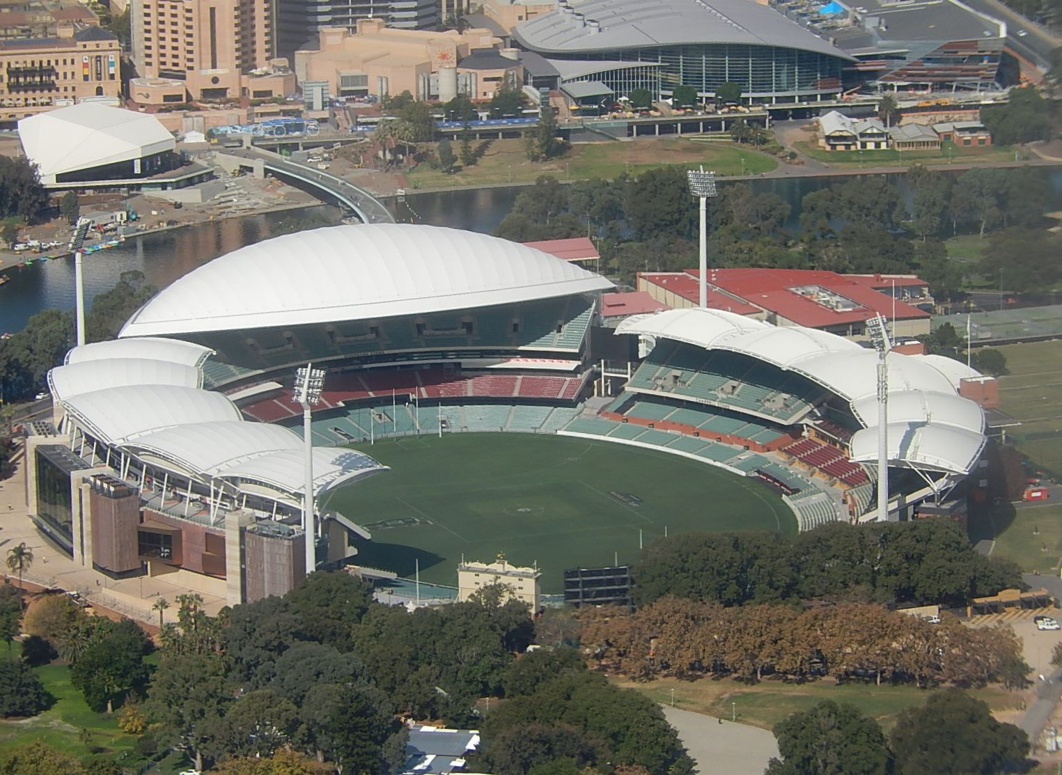 The Adelaide Oval stadium, Australia, seen in April 2014 after the completion of three new stands This is a cropped and rotated version of the original photo